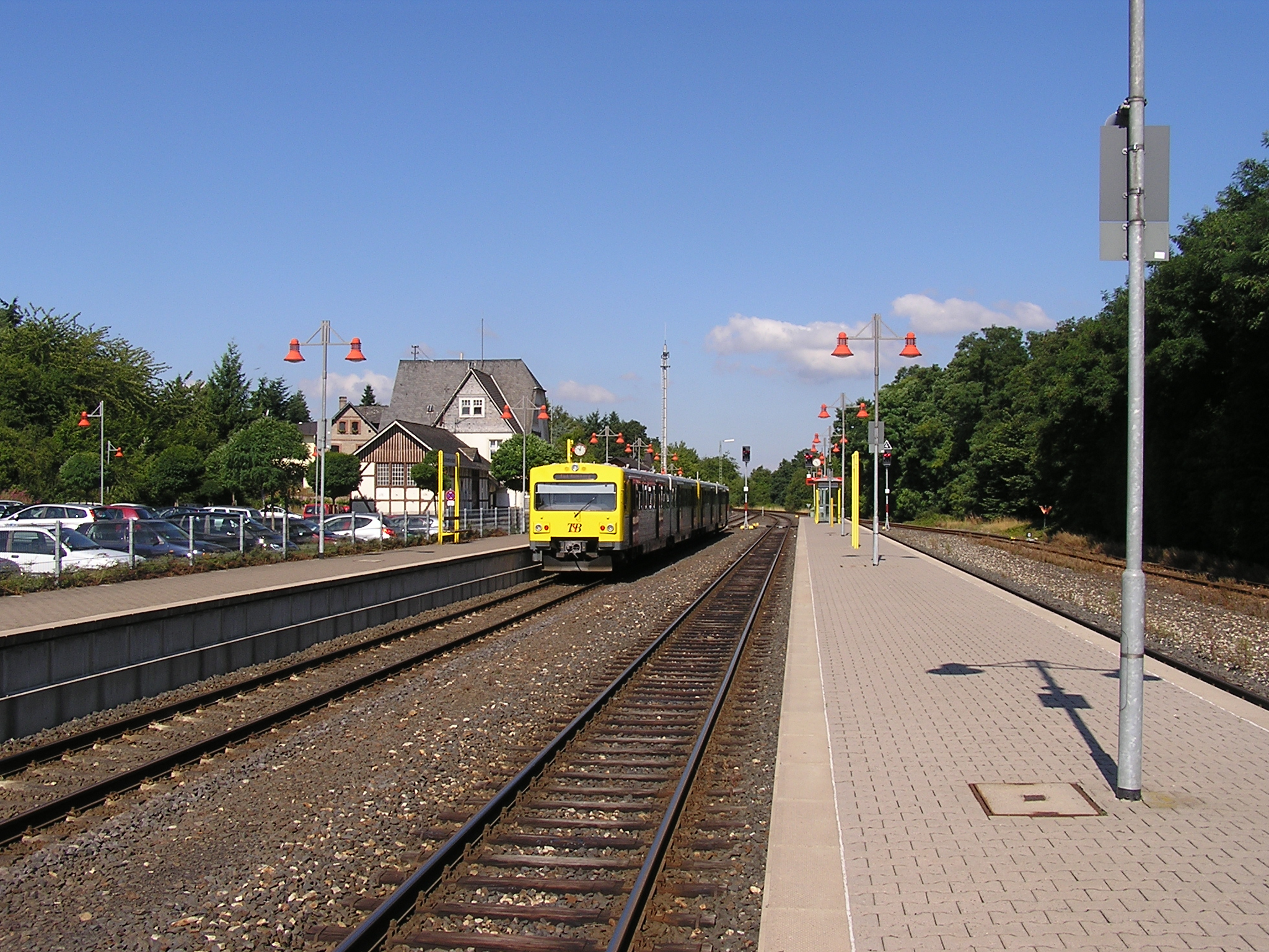 Station Grävenwiesbach with VT 2E of the Taunusbahn